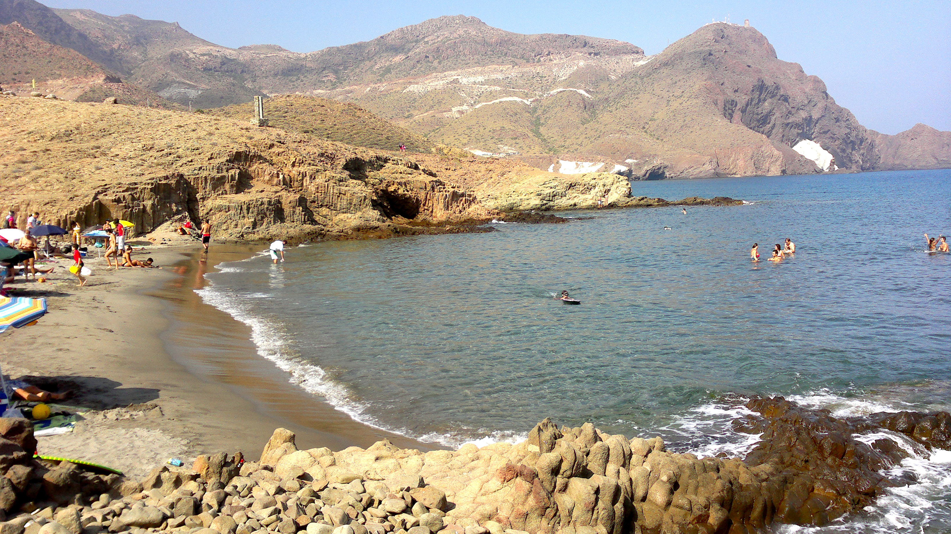 Photo of Cala Arena in Natural Park 'Cabo de Gata', Almería SPAIN